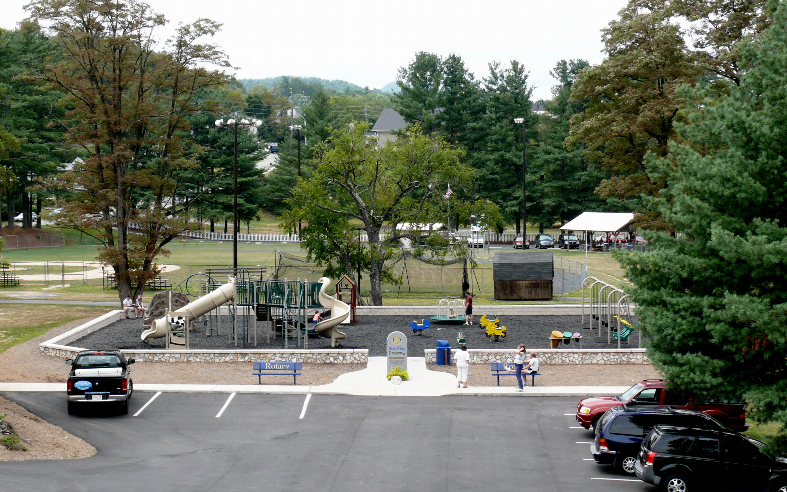 The Spruce Pine Community Park. Photo taken with a Panasonic Lumix DMC-FZ50 in Mitchell County, NC, USA.